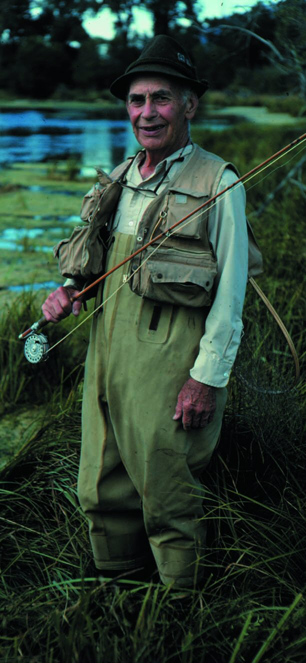 Portrait of Dan Bailey, circa 1970s